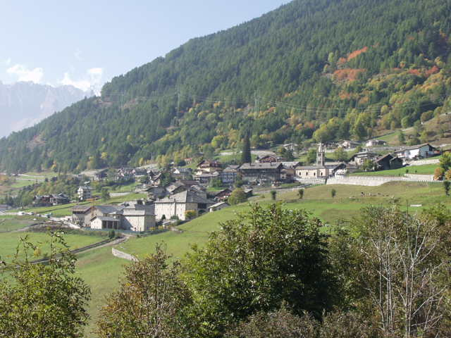 Overview of Saint-Oyen (Aosta Valley, Italy)